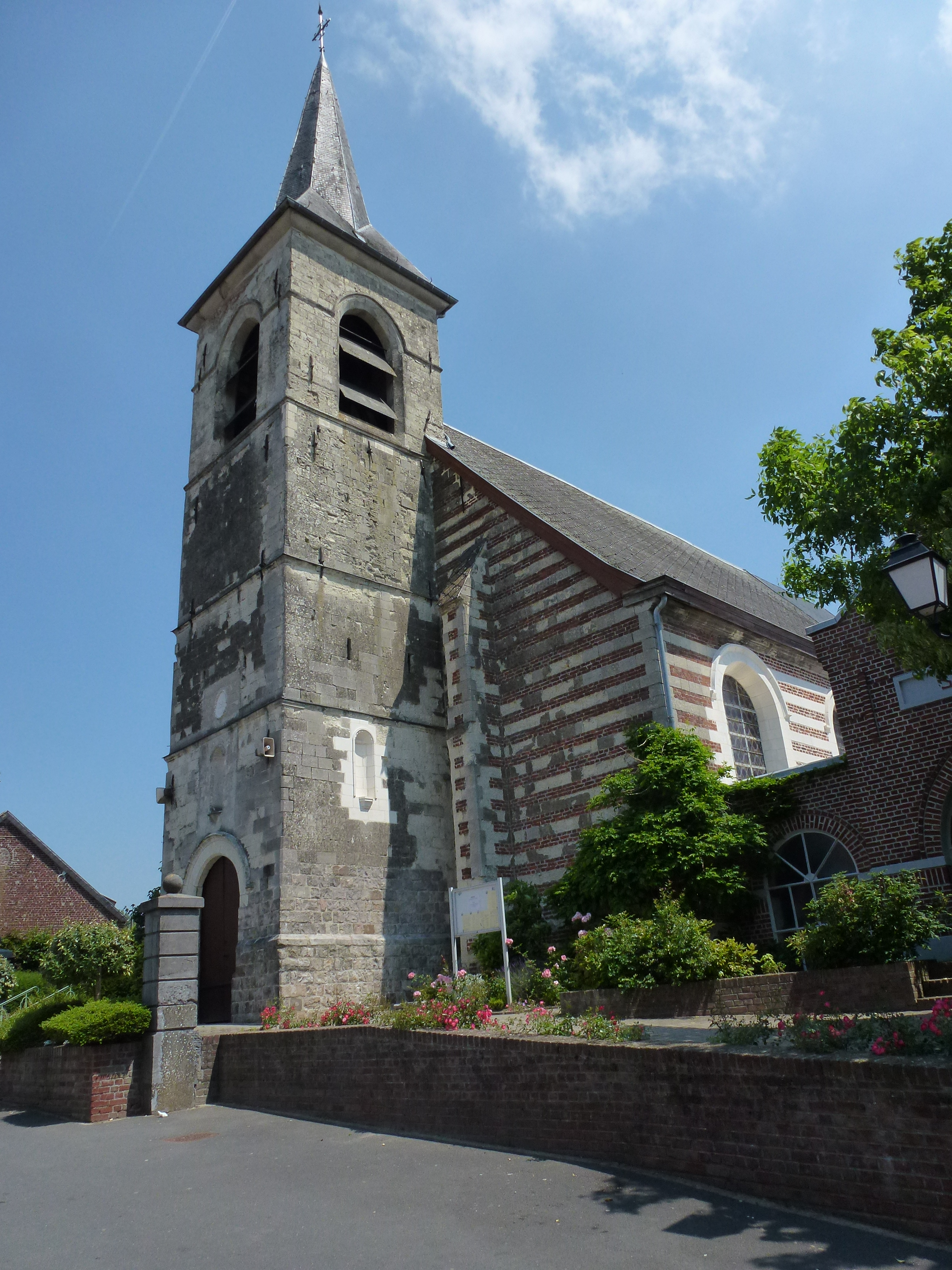 Curgies (Nord, Fr) église 01